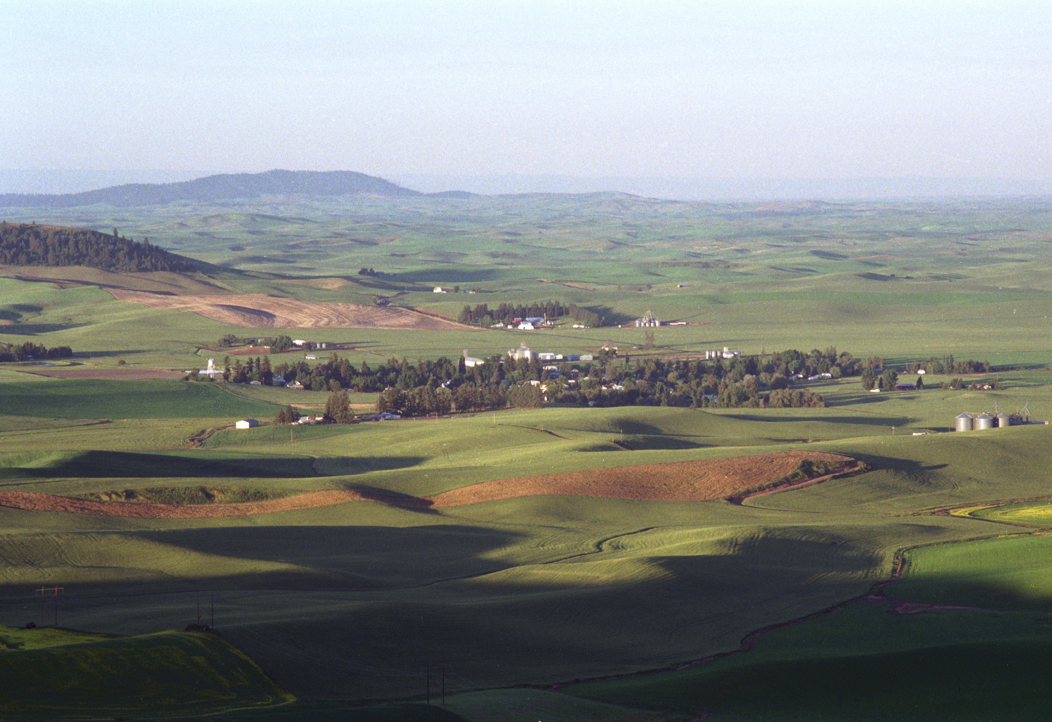 Farmington, WA